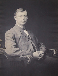 Clifton Johnson (1865-1940) of Hadley, Massachusetts was an American writer, editor, folklorist, illustrator, and photographer. The Clifton Johnson Collection at the Jones Library in Amherst, MA